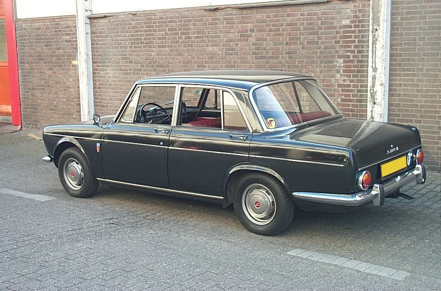 1964 Simca 1500 saloon, black, interior in red fake leatherFirst registered 1964, 85.408 km at the time the photo was taken The vehicle was on sale at the Garage de l'Est at the time the image was uploadedOriginal photograph digitally modified using GIMP (removed license plate number)